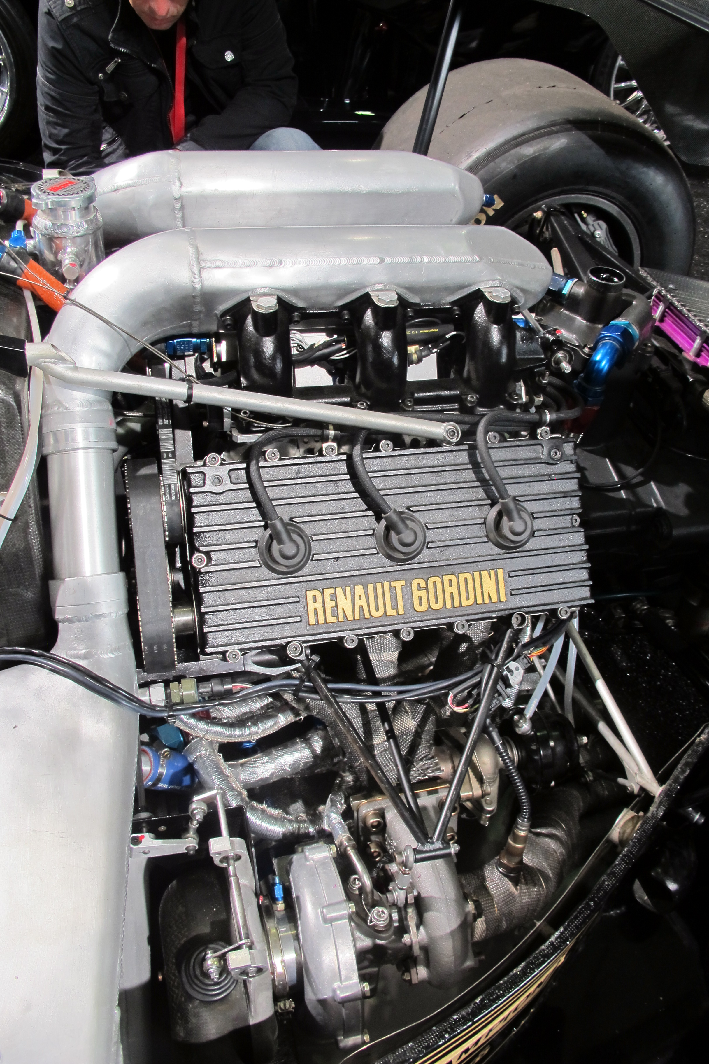 A picture of a Renault Gordini EF4 1.5 liter turbocharged engine in a Lotus 95T John Player Special Formula One car once driven by Nigel Mansell. Picture taken at the Mecum auction in Monterey, California August 2013